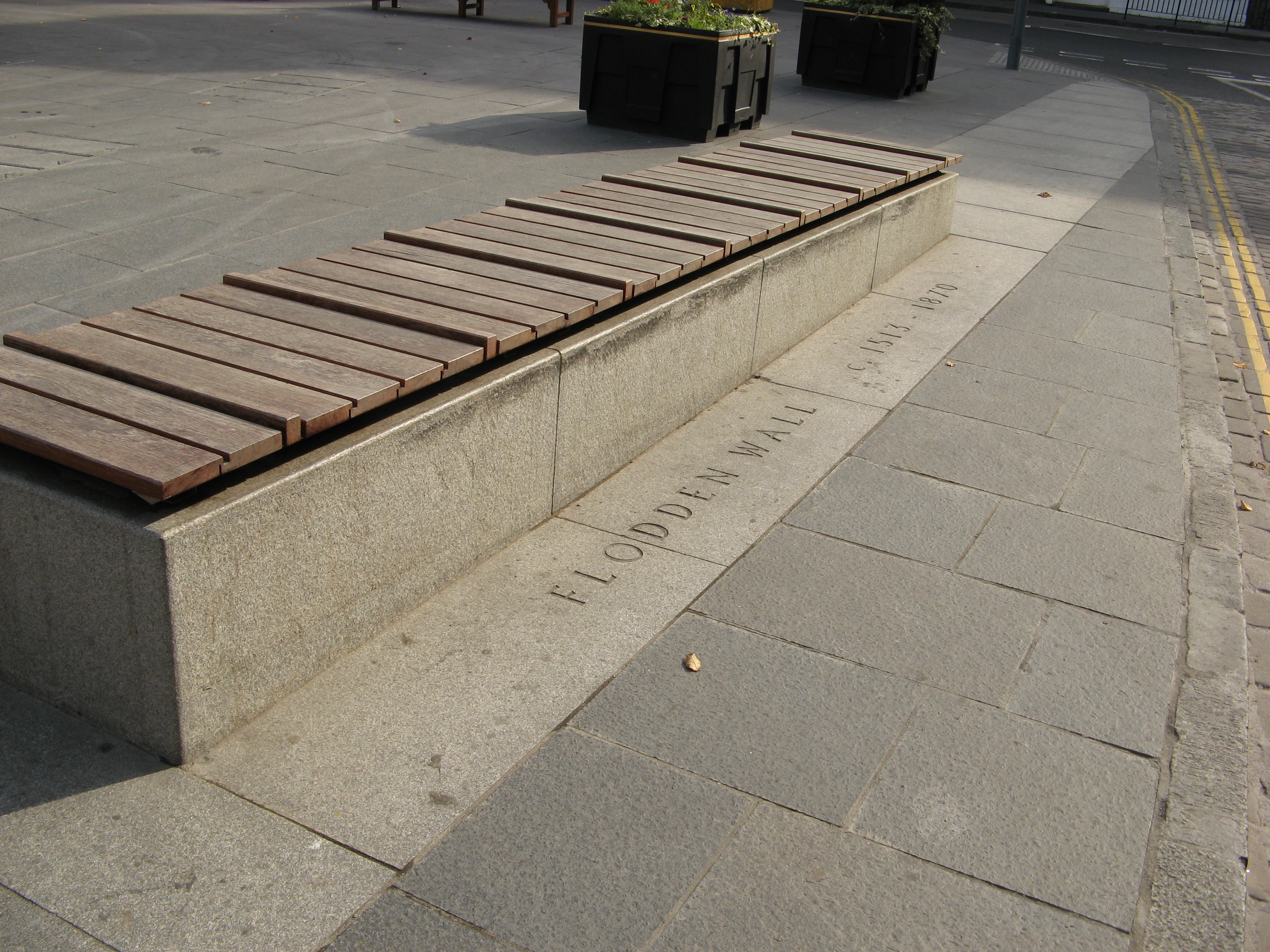 Granite paving marking the line of teh 16th-century Flodden Wall. Grassmarket, Edinburgh